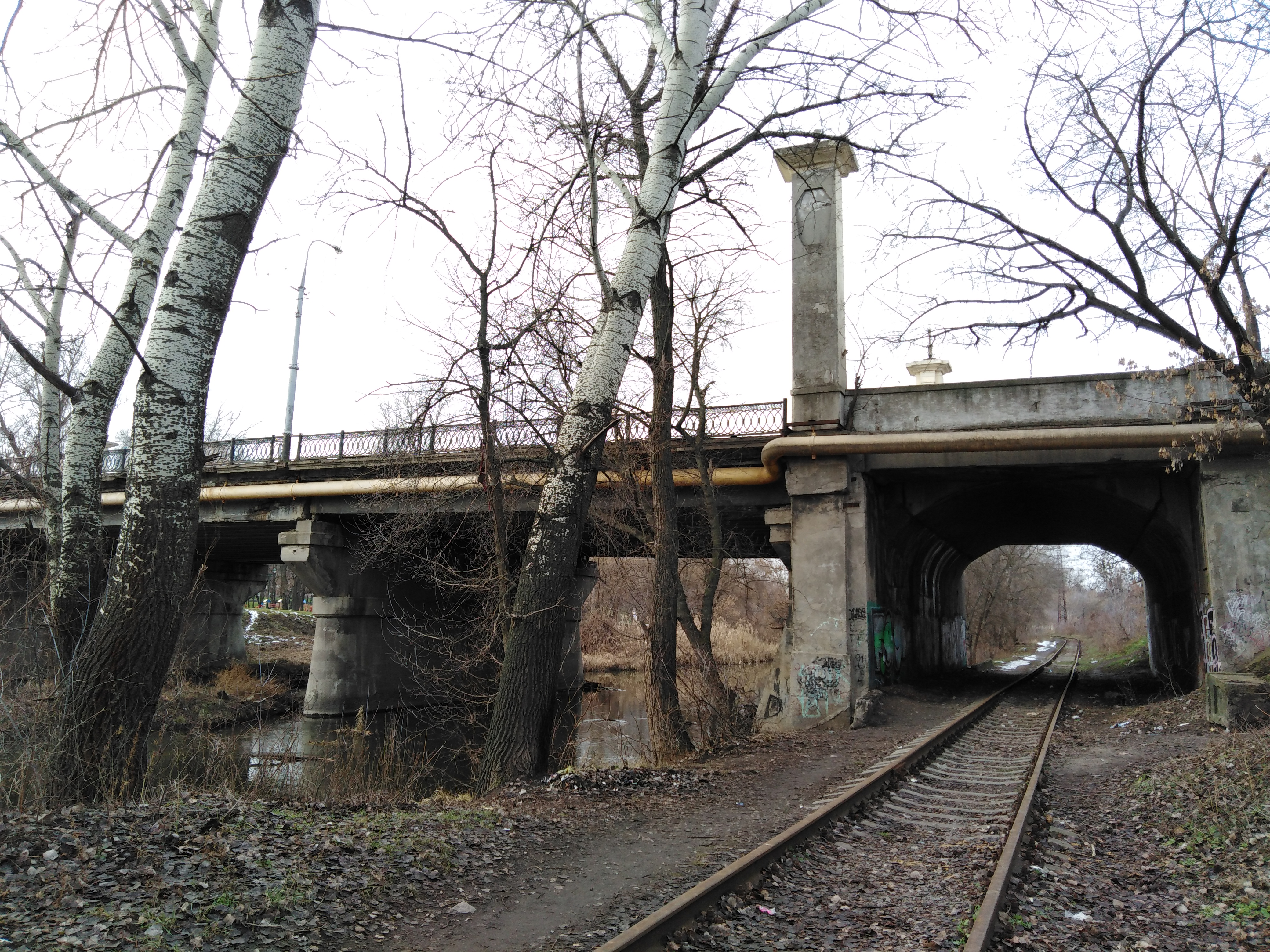 Osnovyansky Bridge, Kharkiv. Construction.